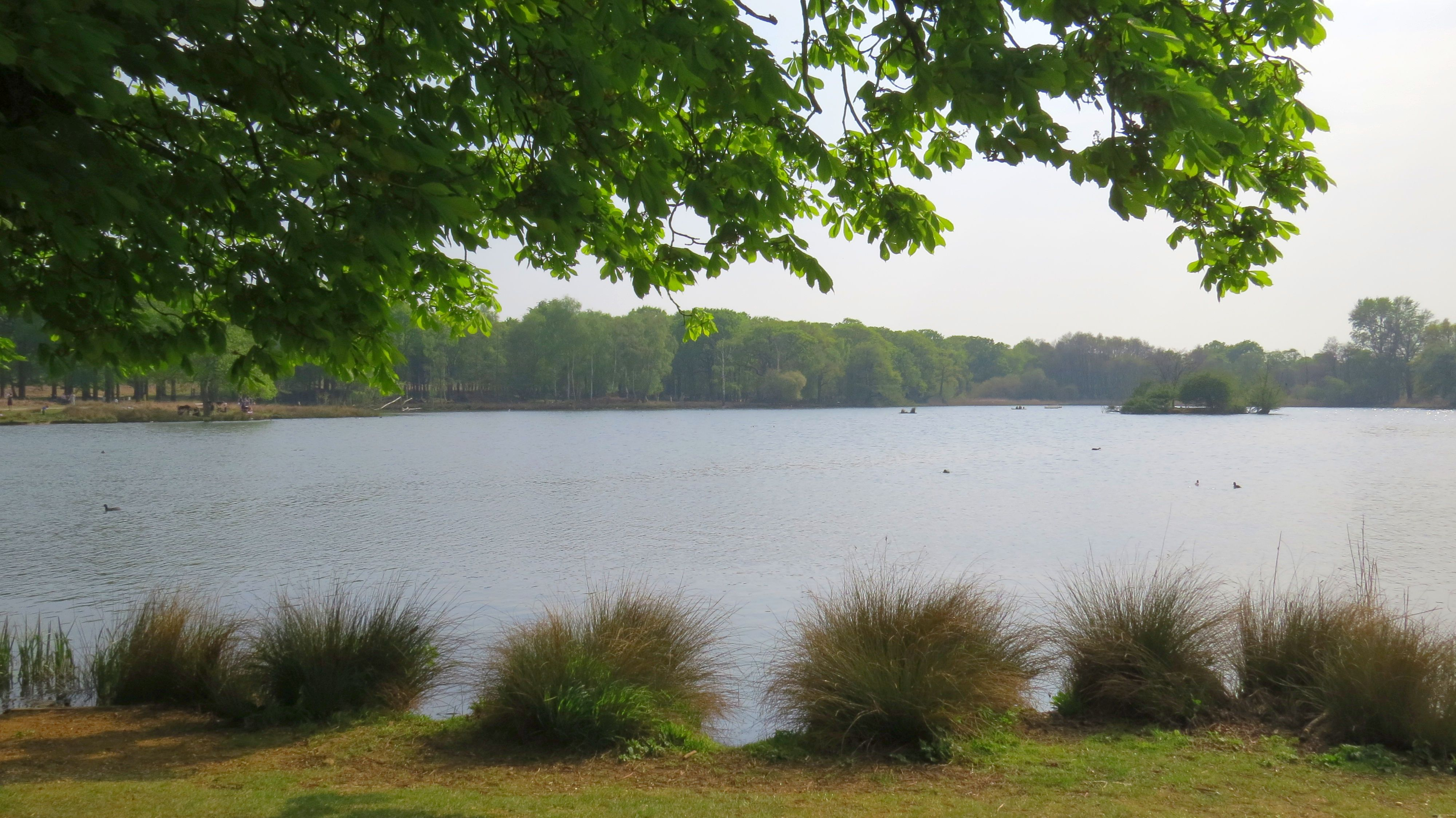 Pen Pond in the Richmond Park - London